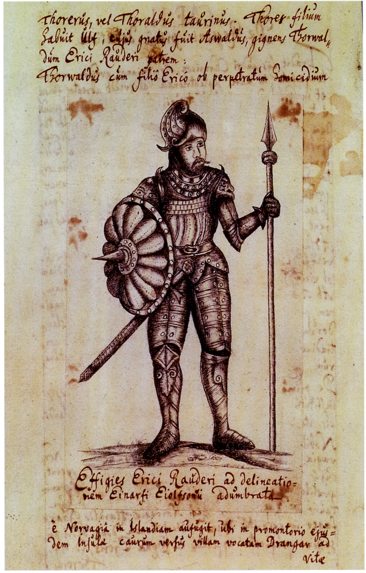 Eric the Red